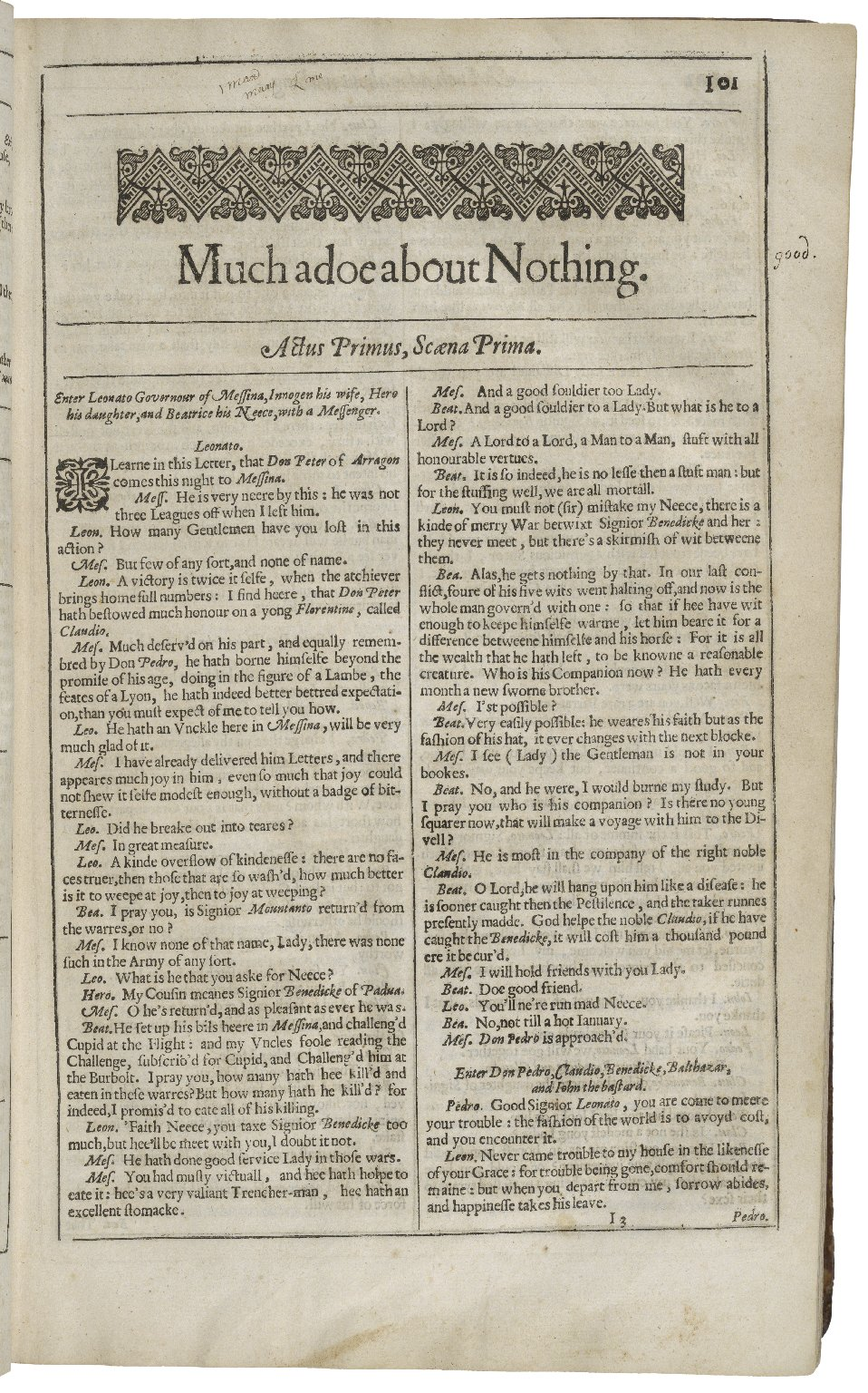 The first page of Much Ado About Nothing, printed in the Second Folio of 1632